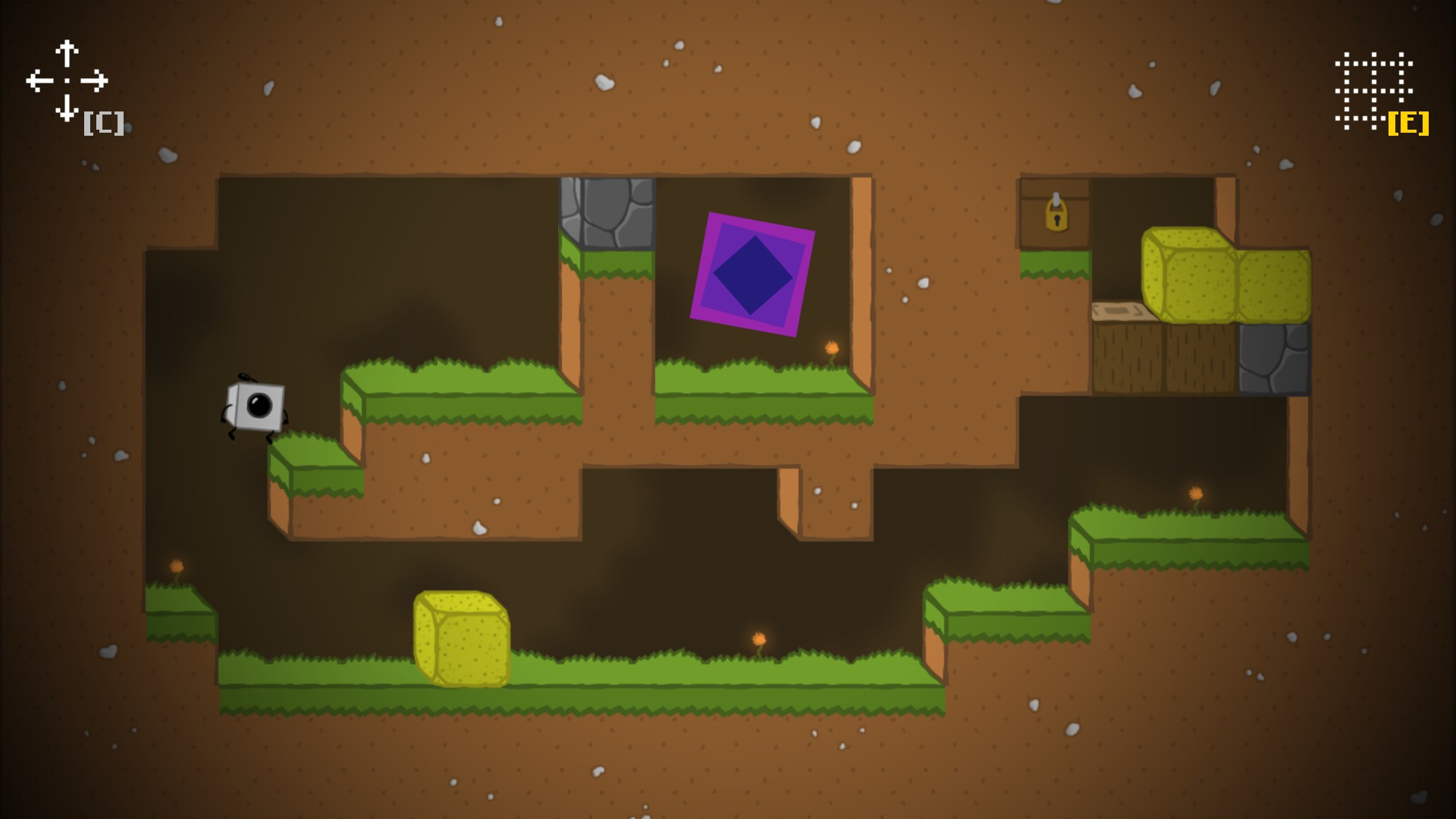 A level in Blocks That Matter, a video game.